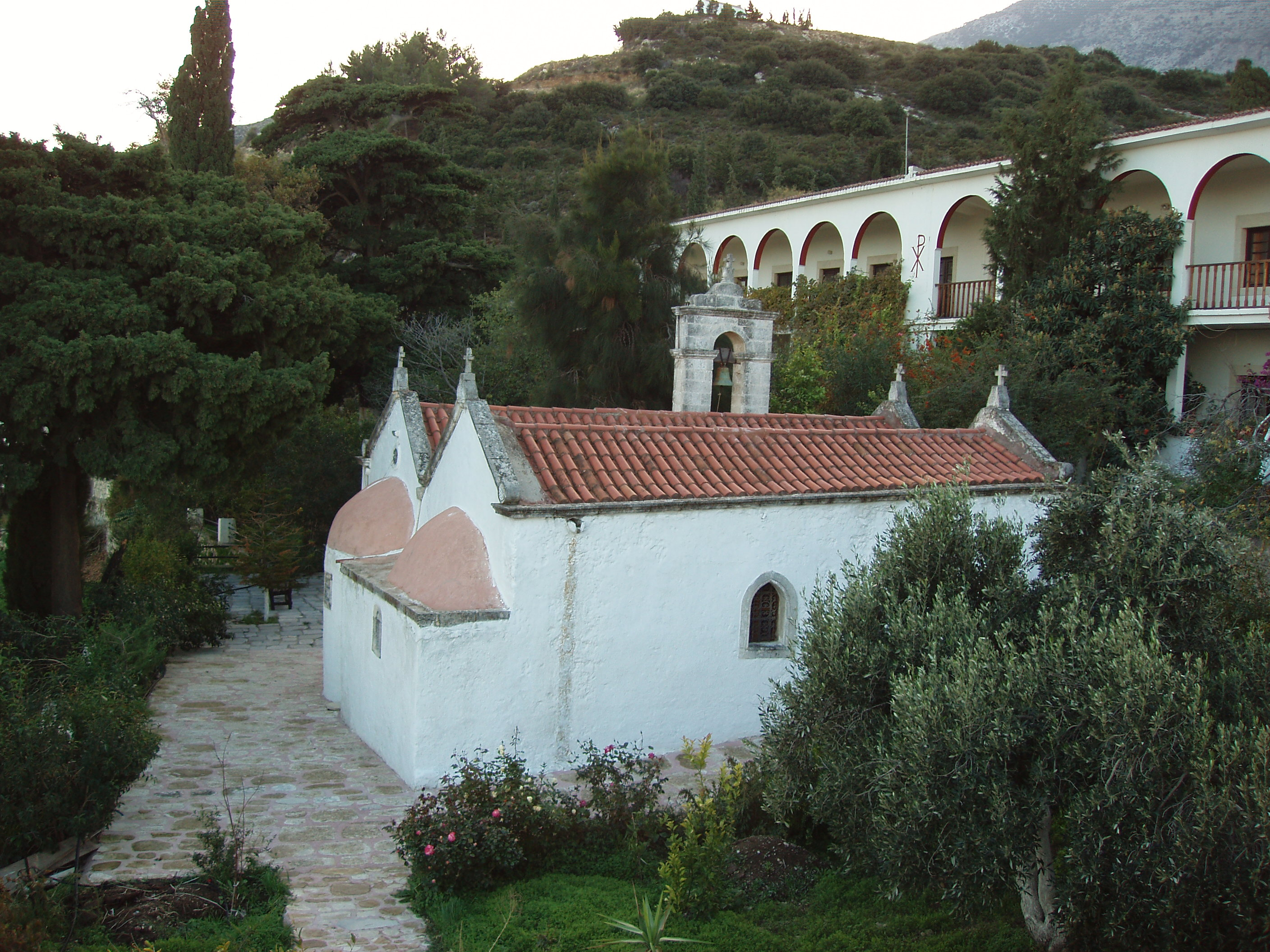 Gorgolaini orthodox monastery, dedicated to Saint George in Kato Asites, Heraklion Prefecture, Greece